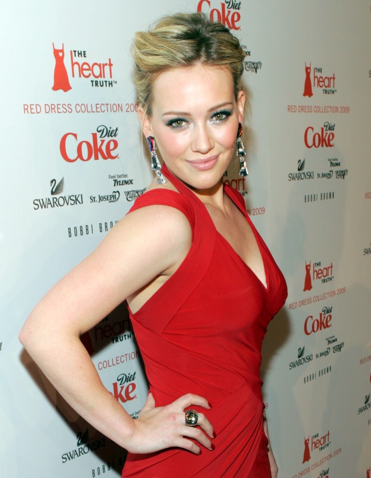 Hilary Duff at The Heart's Truth Red Dress Collection Fashion Show in 2009 Cropped